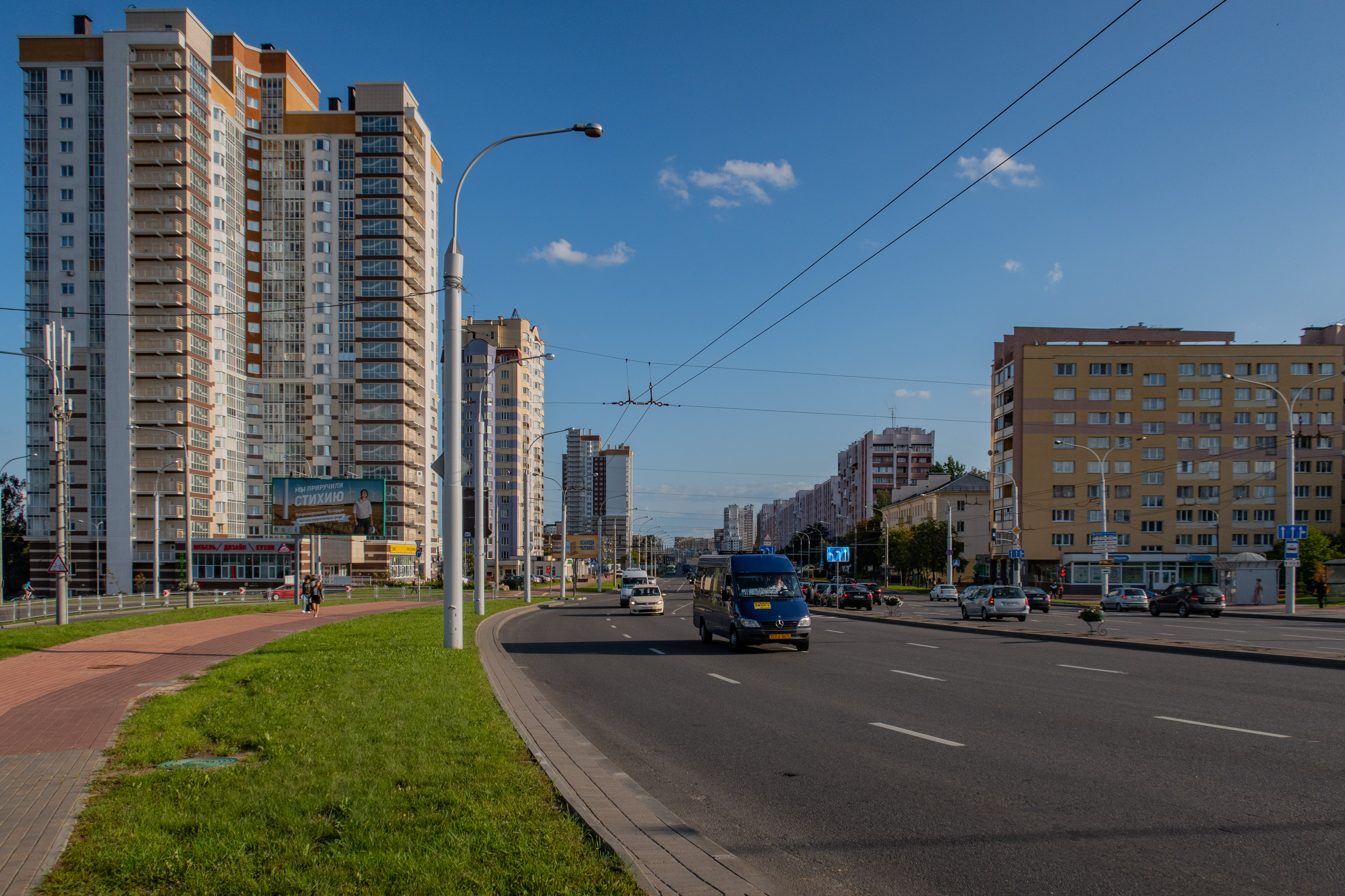 Majakoŭskaha street. Minsk, Belarus